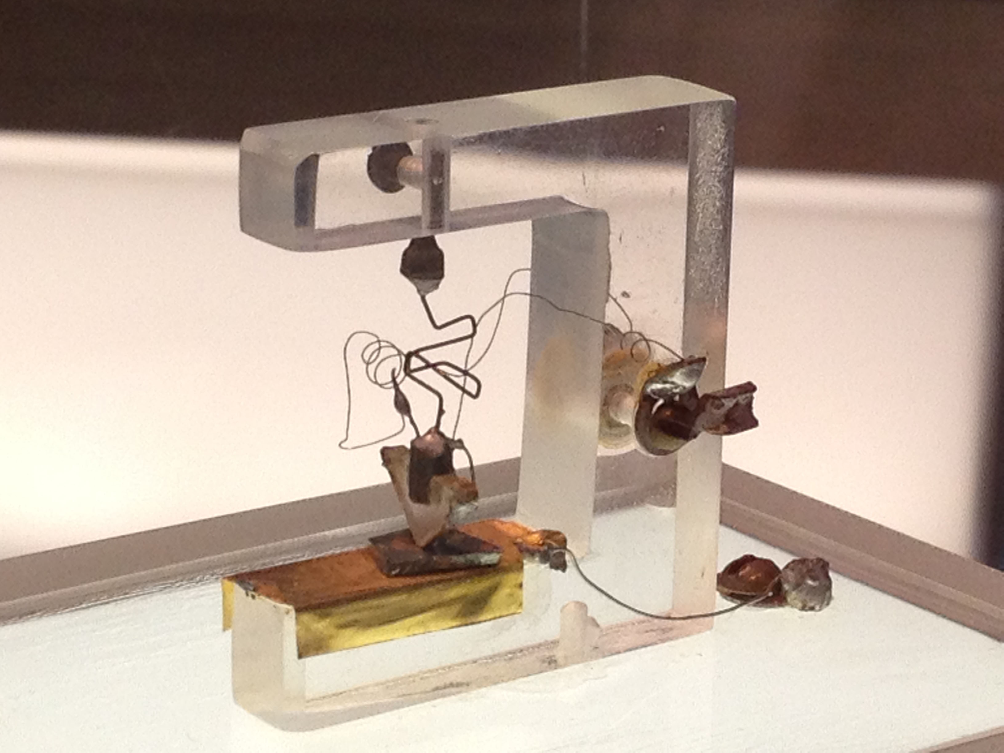 The first transistor ever made, built by John Bardeen, William Shockley and Walter H. Brattain of Bell Labs in 1947. Original exhibited in Bell Laboratories.